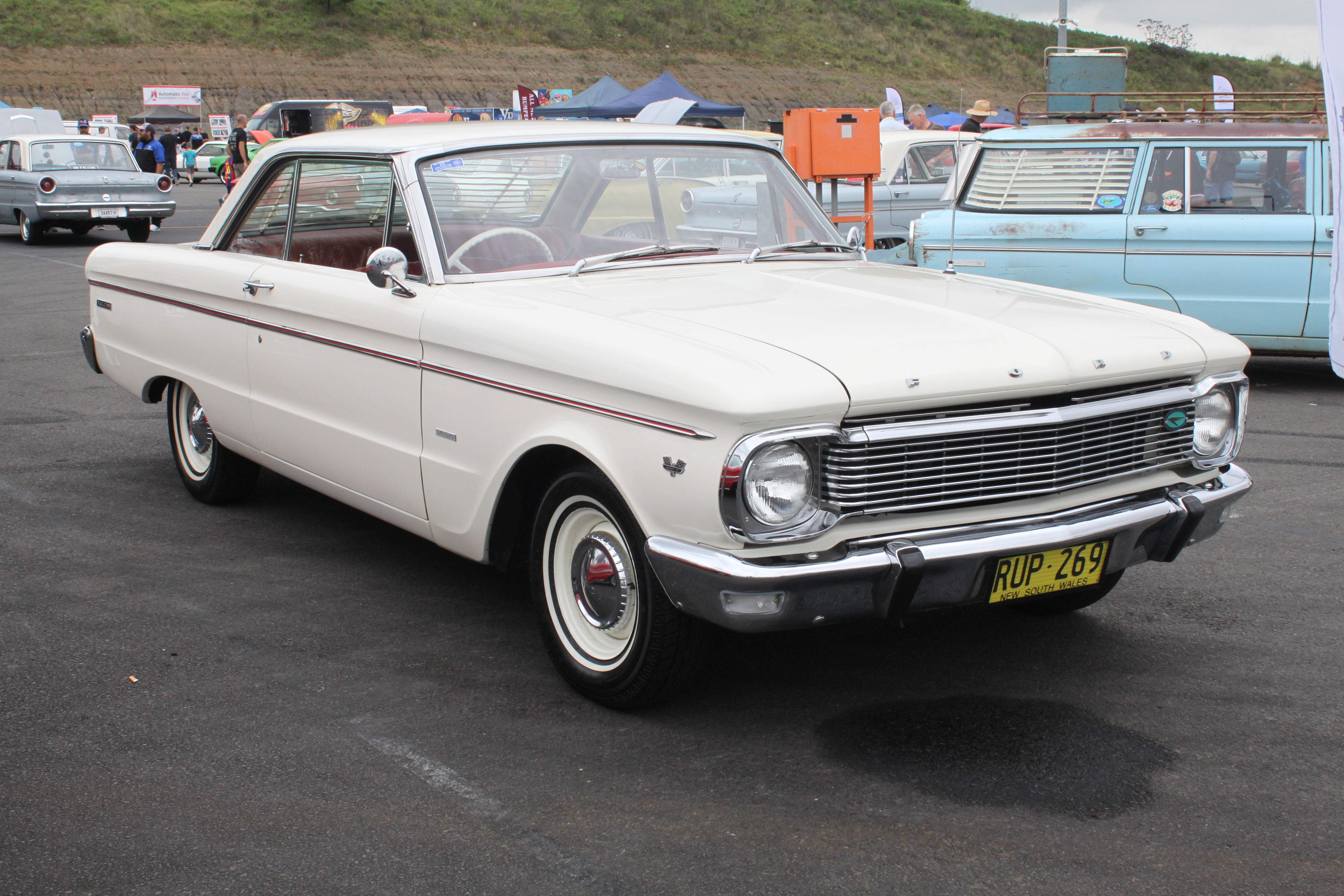 All Ford Day, Eastern Creek NSW, November 2015